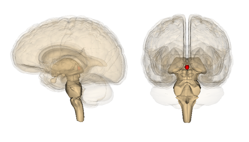 Pineal gland. Images are from Anatomography maintained by Life Science Databases(LSDB).